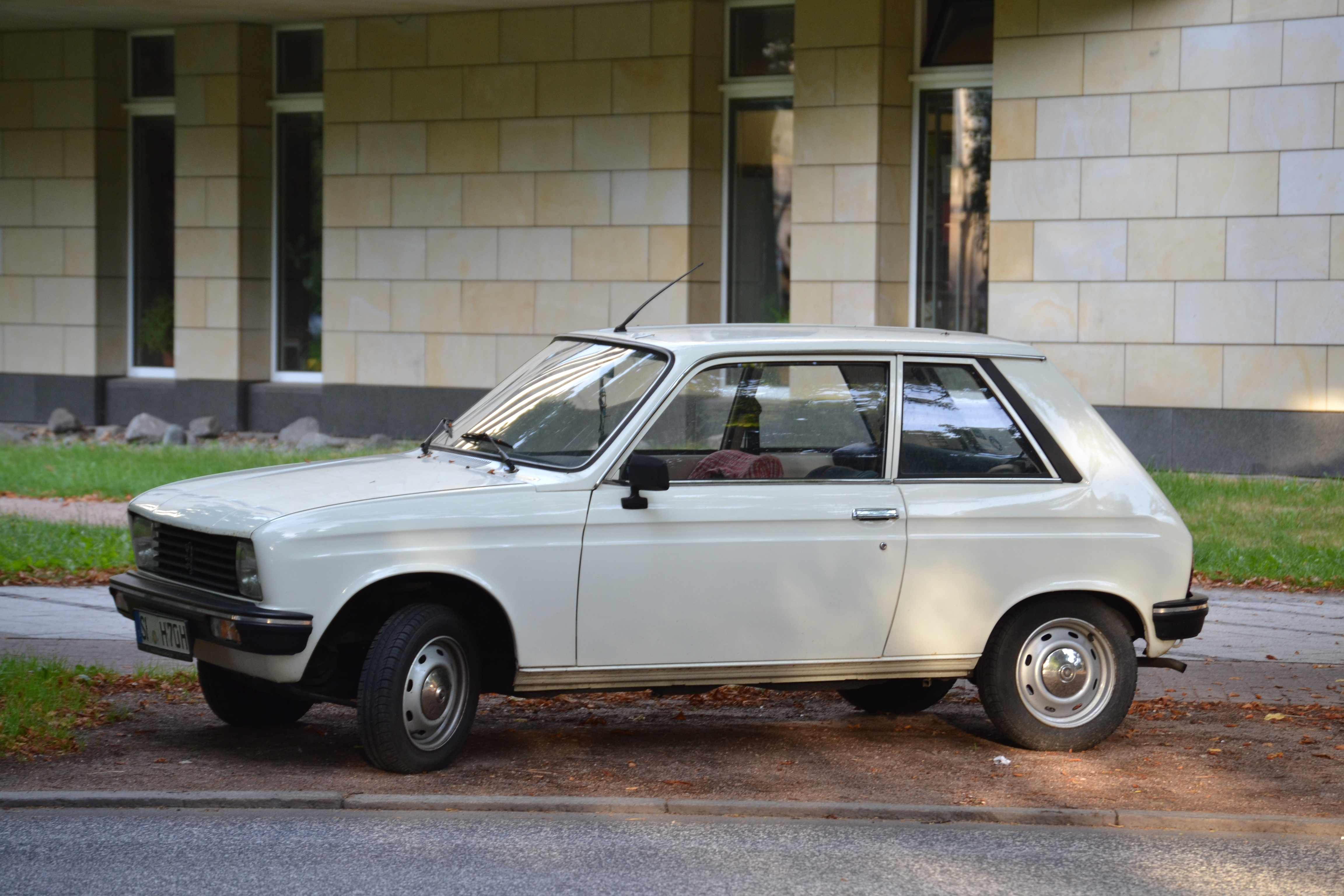 Peugeot 104 Coupé